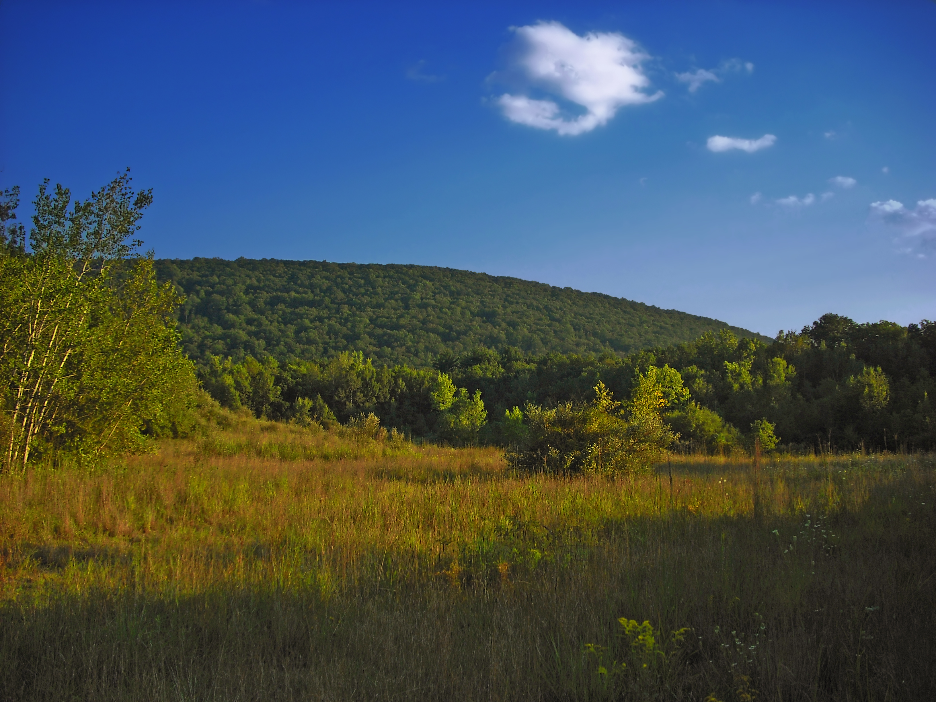 A fallow field and ridge in late-day light at Nescopeck State Park, Luzerne County.